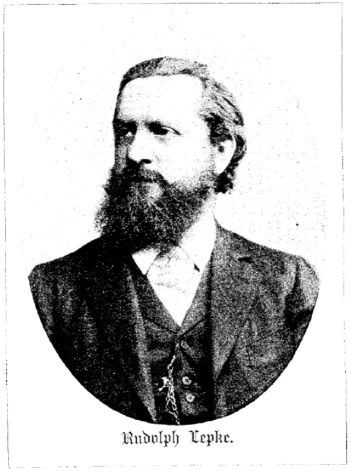 Rudolph Lepke (1845-1904), German art dealer